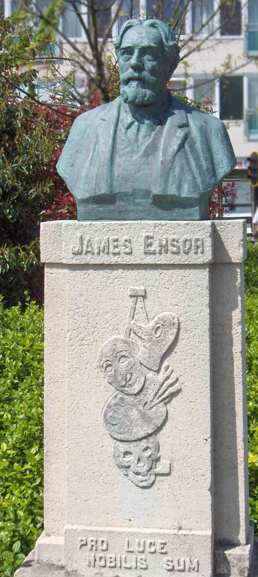 James Ensor (1860-1949), famous Belgian painter. Bust by Edmond de Valériola (1877-1956), a Brussels sculptor (1930) (Oostende, Belgium)